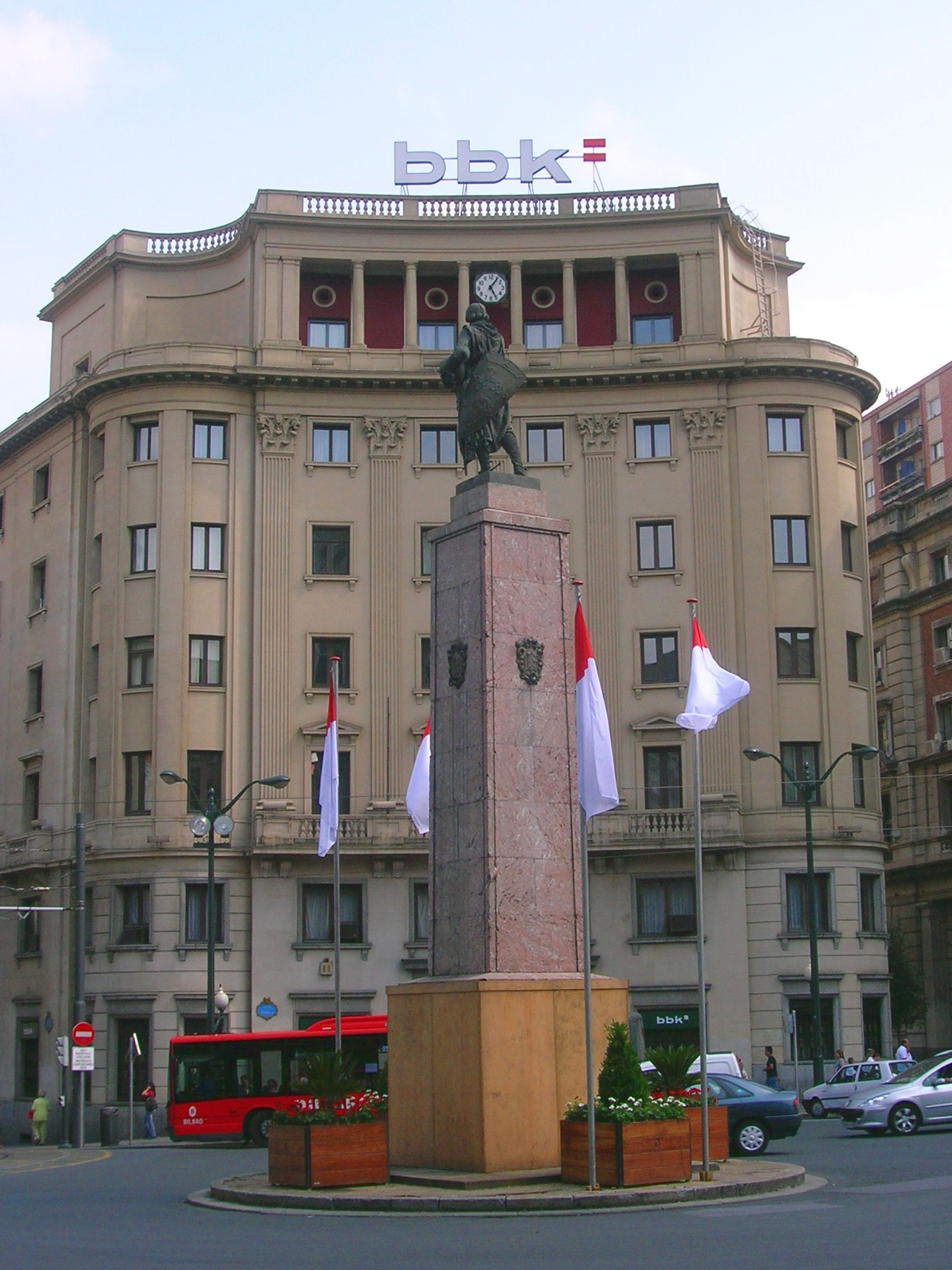 Monument to Diego López de Haro, founder of Bilbao, and Bilbao Bizkaia Kutxa building at Plaza Biribila / Plaza Circular